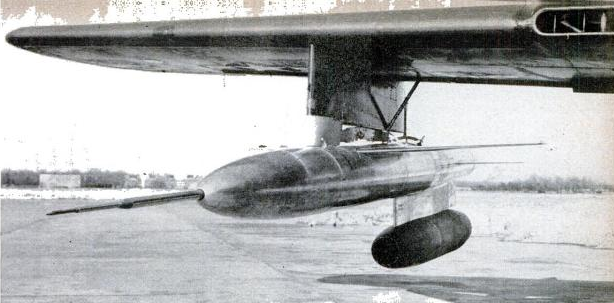 A Gorgon IV missile mounted on the wing of a P-61 Black Widow in preparation for flight testing. Public domain photograph from February 1949 issue of Popular Mechanics. This issue was not copyright renewed by the publisher and the entire issue is in the public domain.